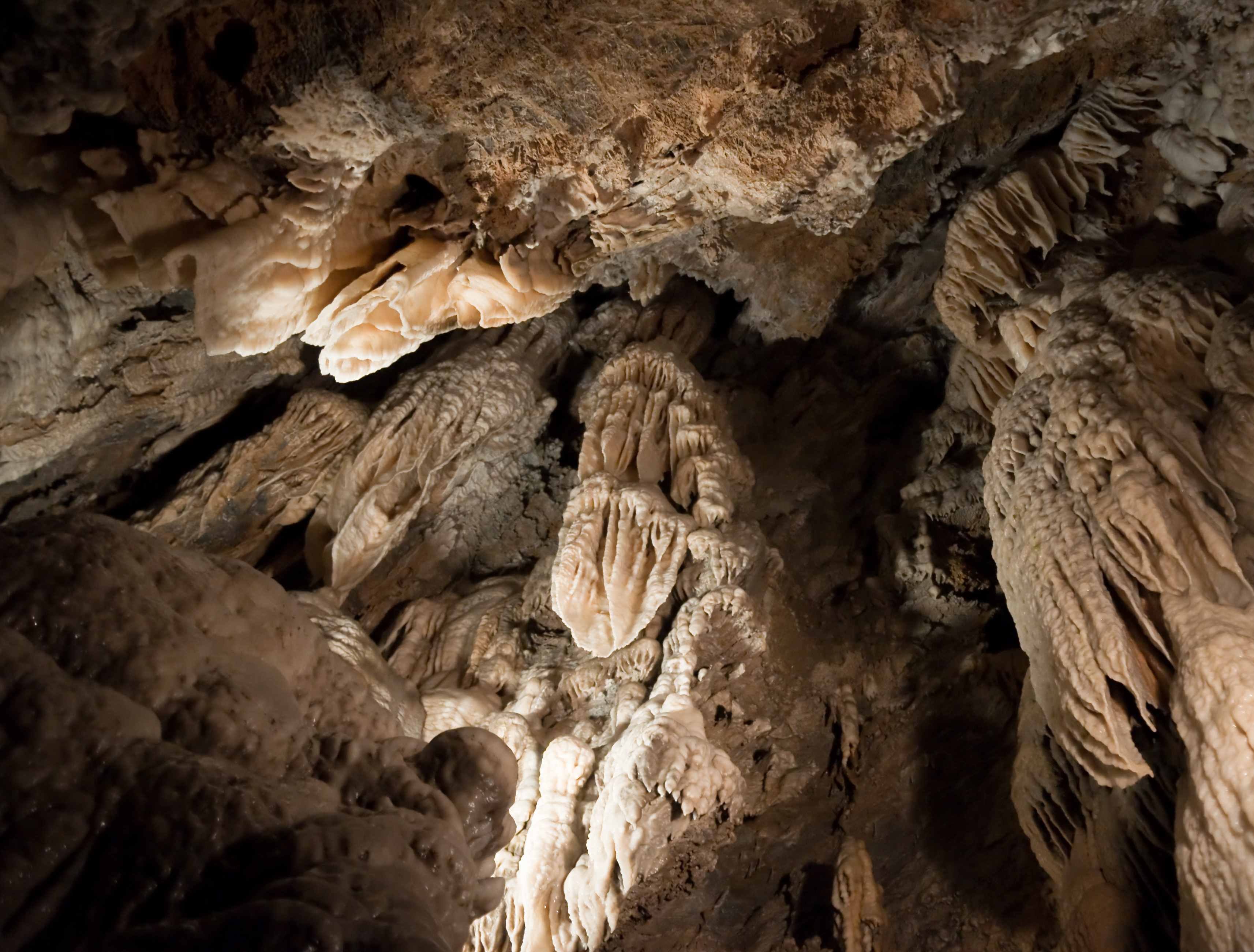 Grotta del Vento, Tuscany, Italy